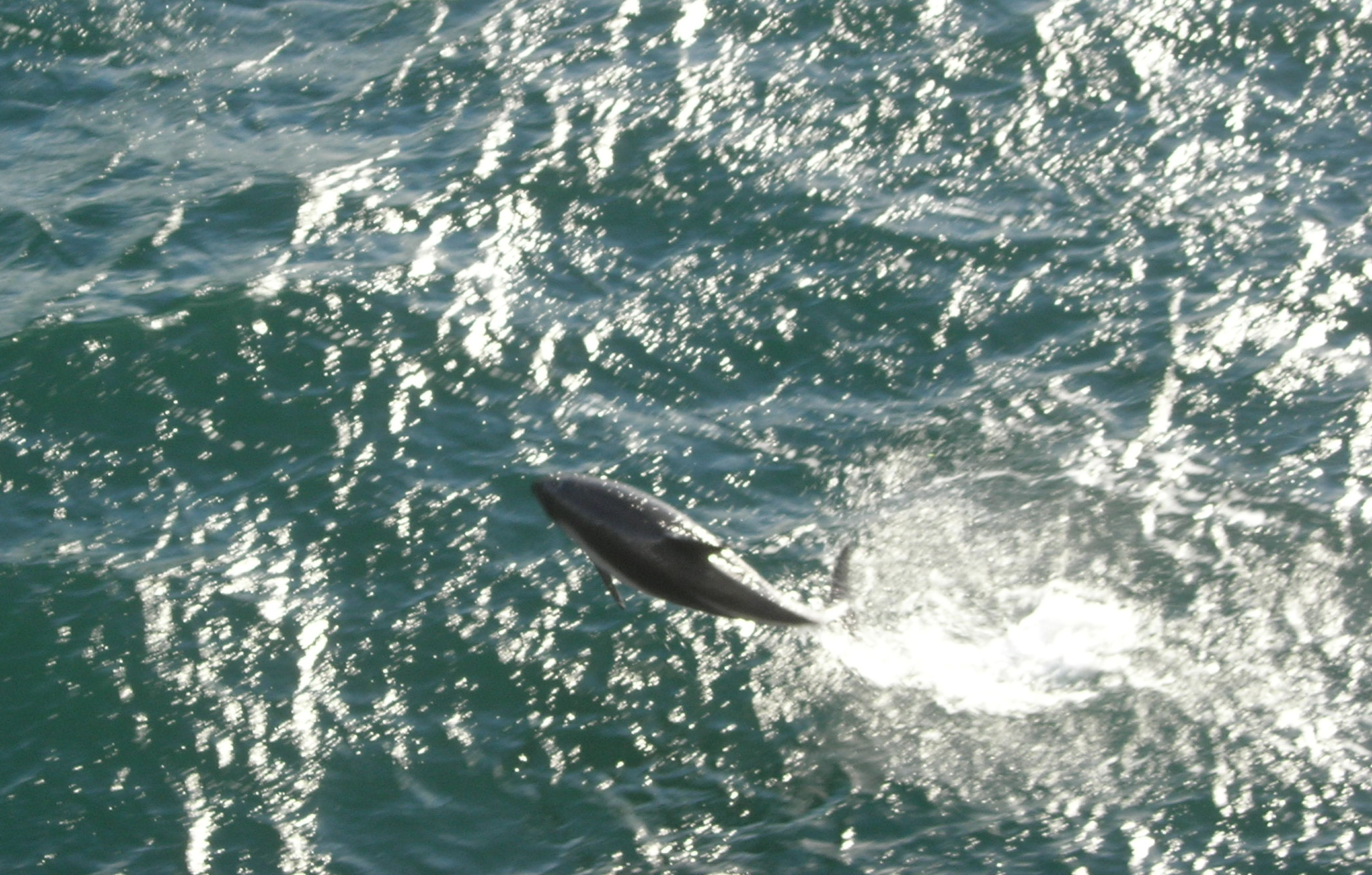 Description = Dauphin au large de Punta Arenas (Chili ) Source =Photo taken by Remi Jouan Date =Avril 2006 Author =Remi Jouan